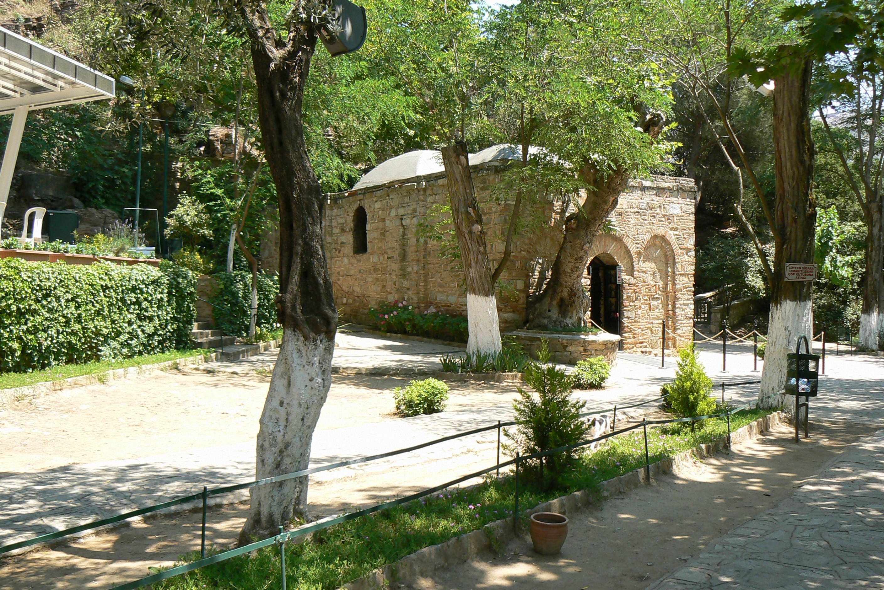 Ephesus, Virgin Mary's house